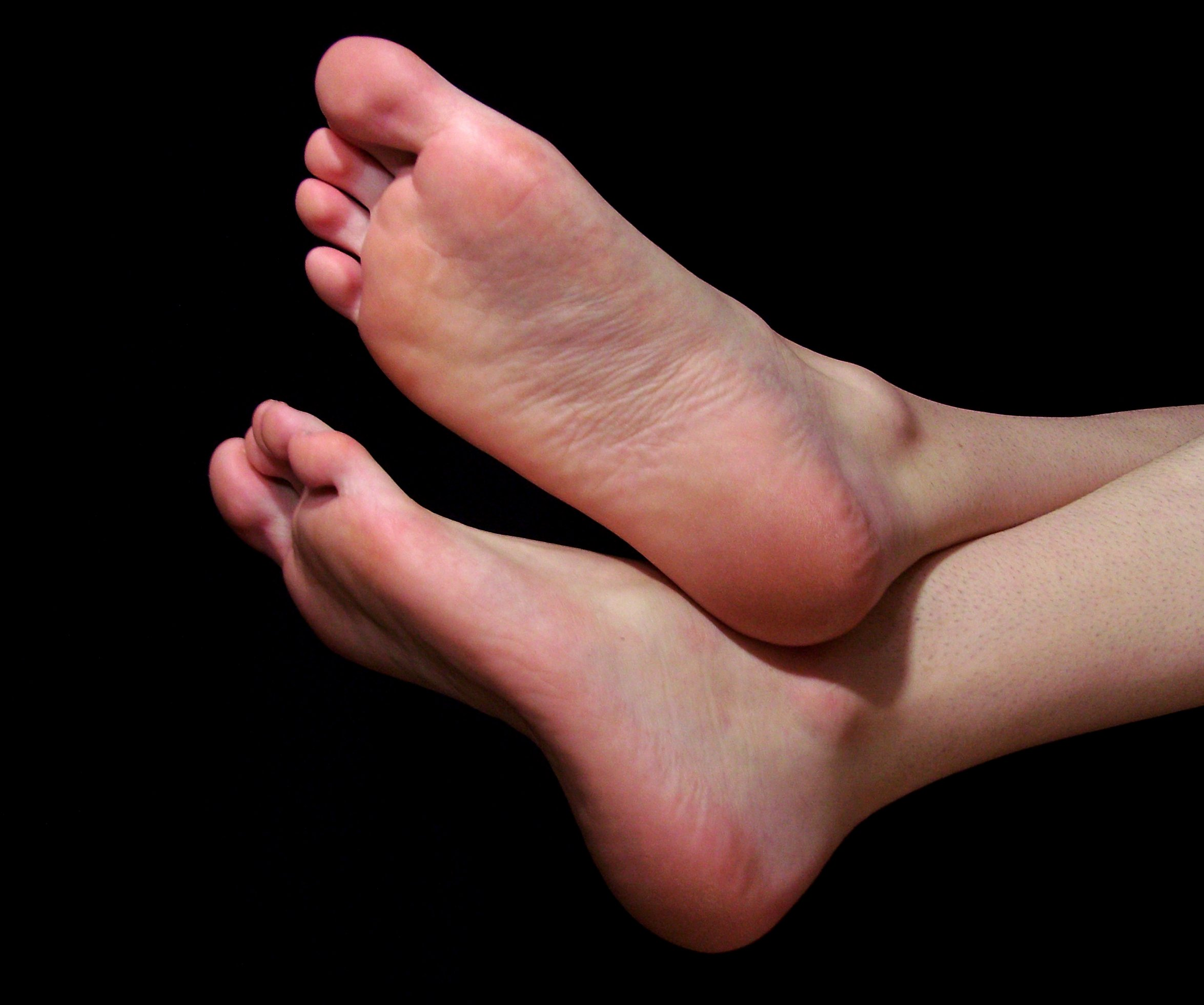 Photo of man's feet (angle 2)